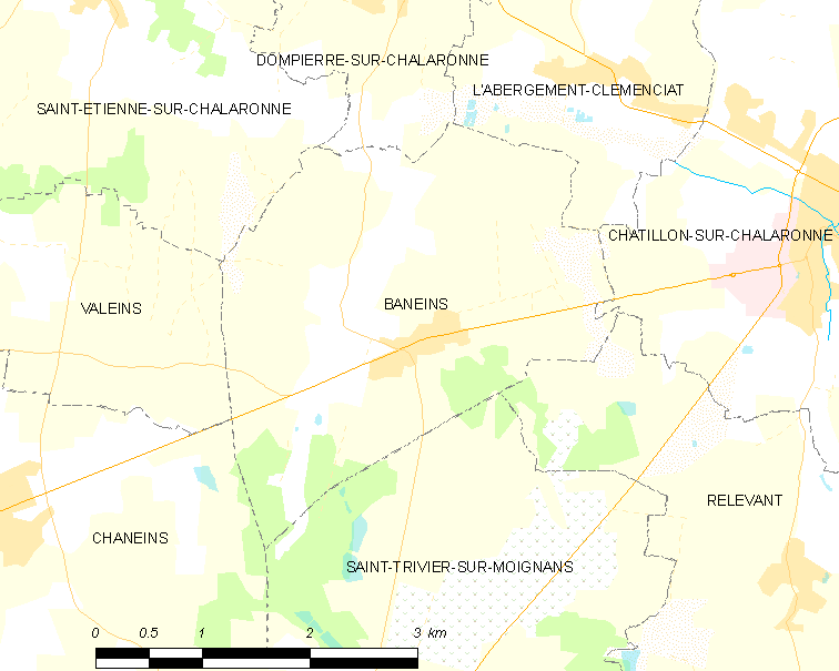 Map of French commune: Baneins Map commune FR insee code 01028.png